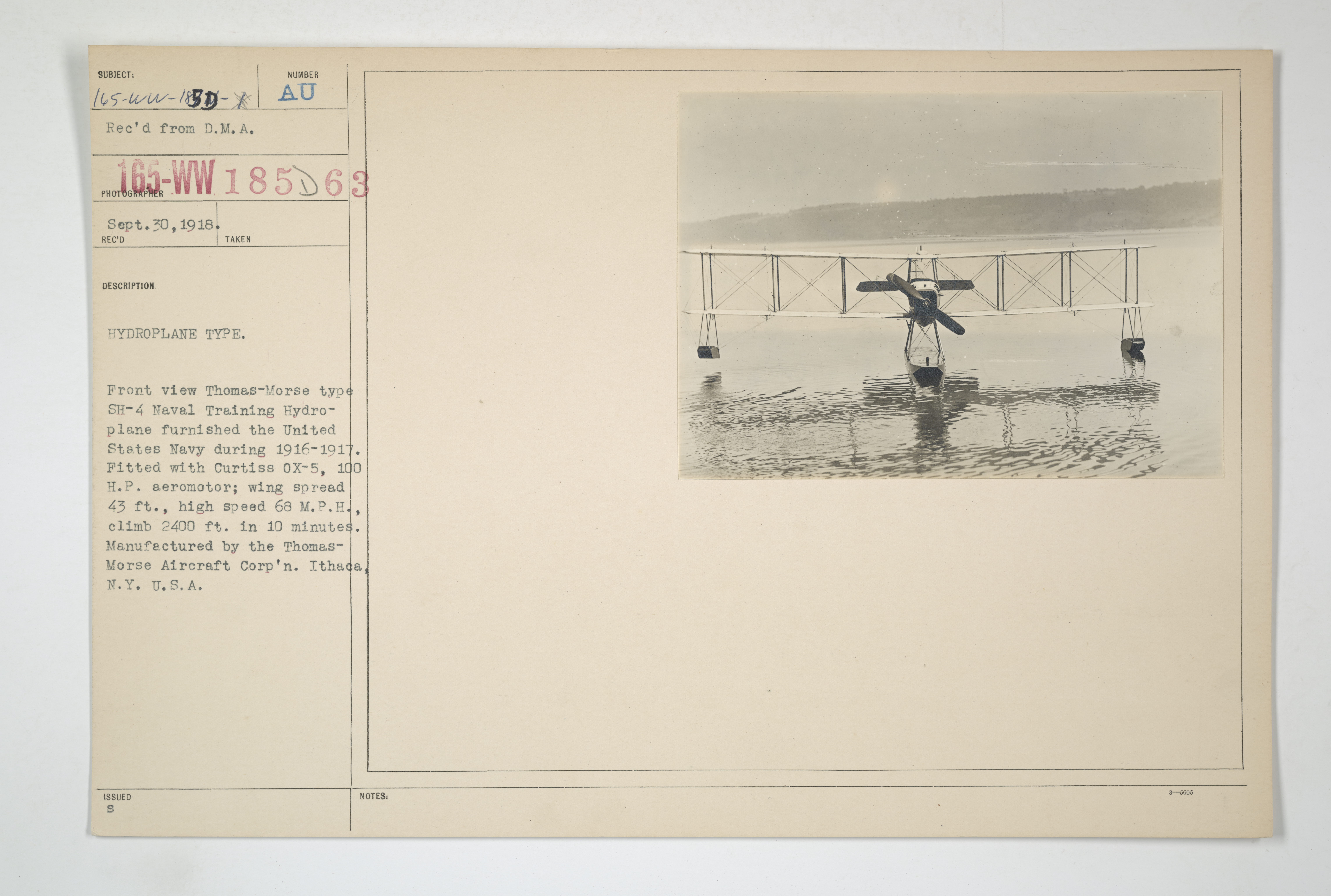 Scope and content: Original Caption: Front view Thomas-Morse type SH-4 Naval Training Hydroplane furnished the United States Navy during 1916-1917. Fitted with Curtiss OX-5, 100 H.P. aeromotor; wing spread 43ft., high speed 68 M.P.H., climb 2400 ft. in 10 minutes. Manufactured by the Thomas Morse Aircraft Corporation. Ithaca, New York. U.S.A. Photographer: D.M.A.